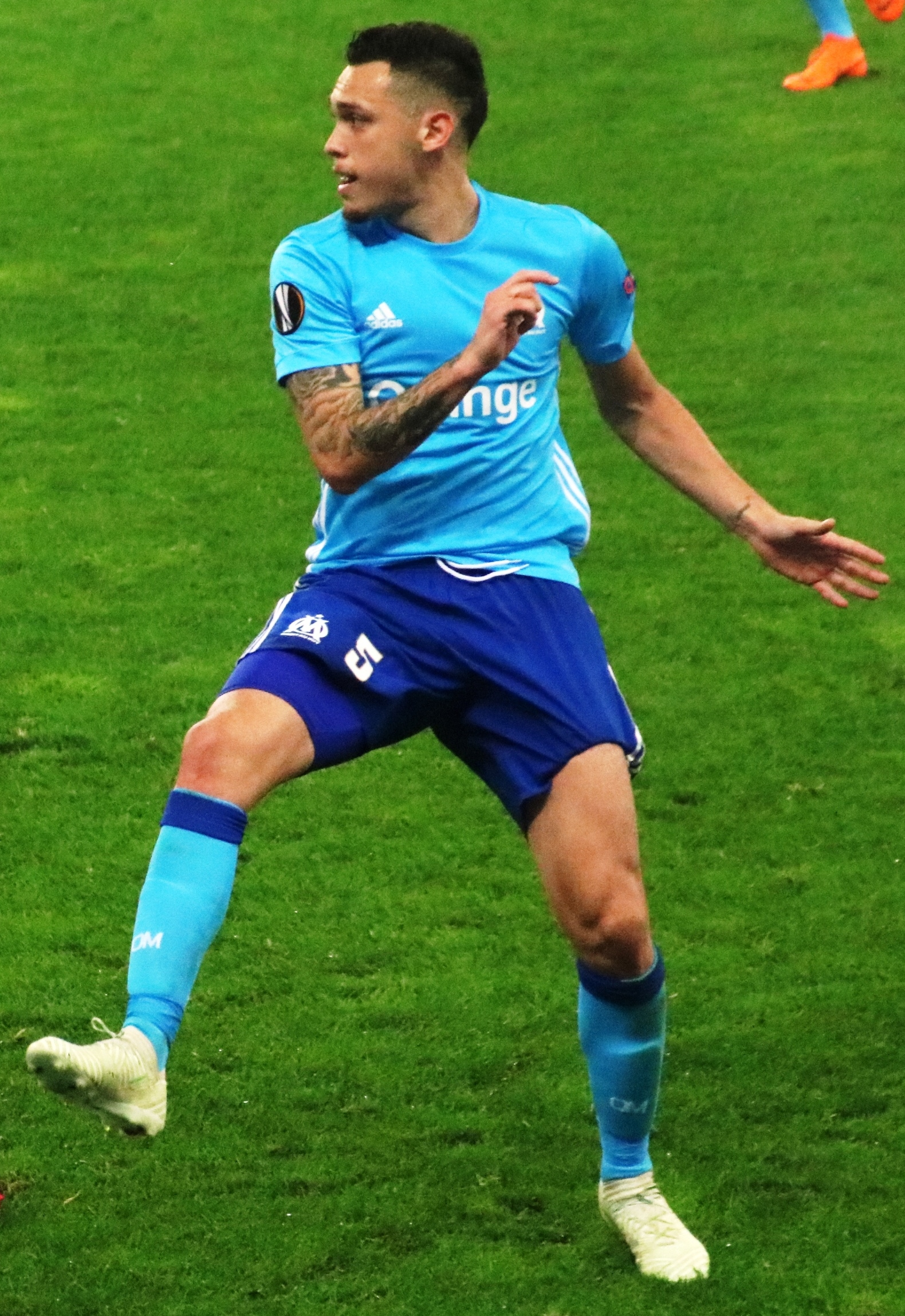 UEFA Euroleague semifinals 2nd leg